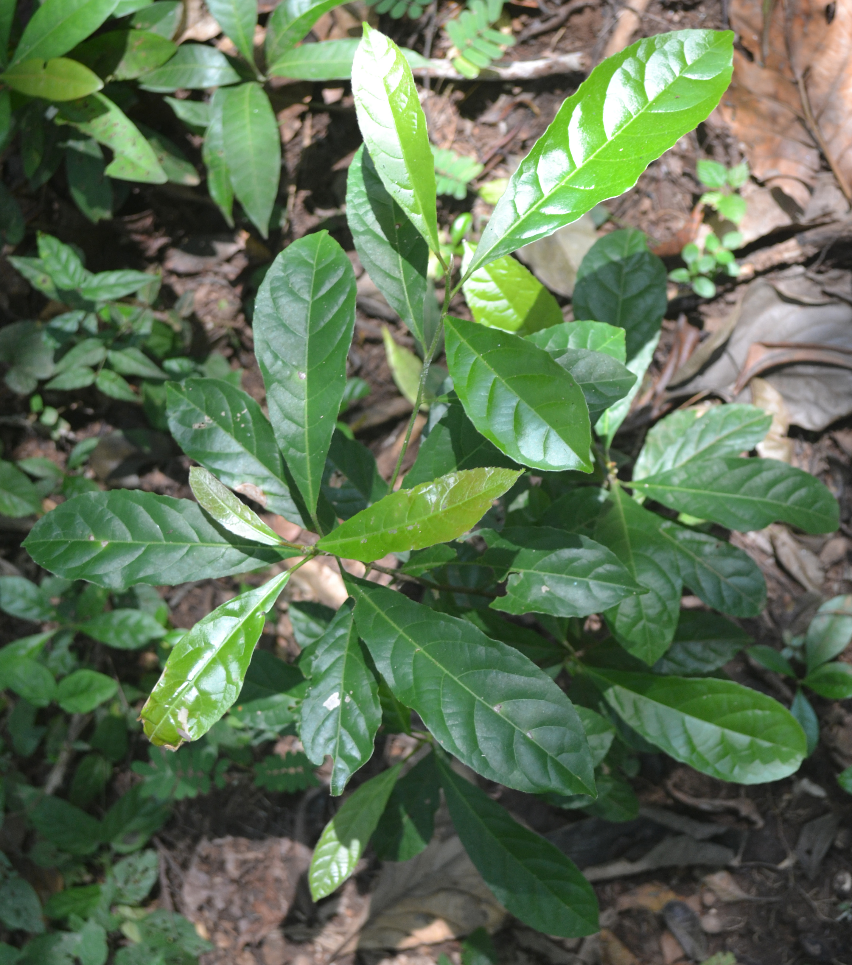 Elaeocarpus serratus